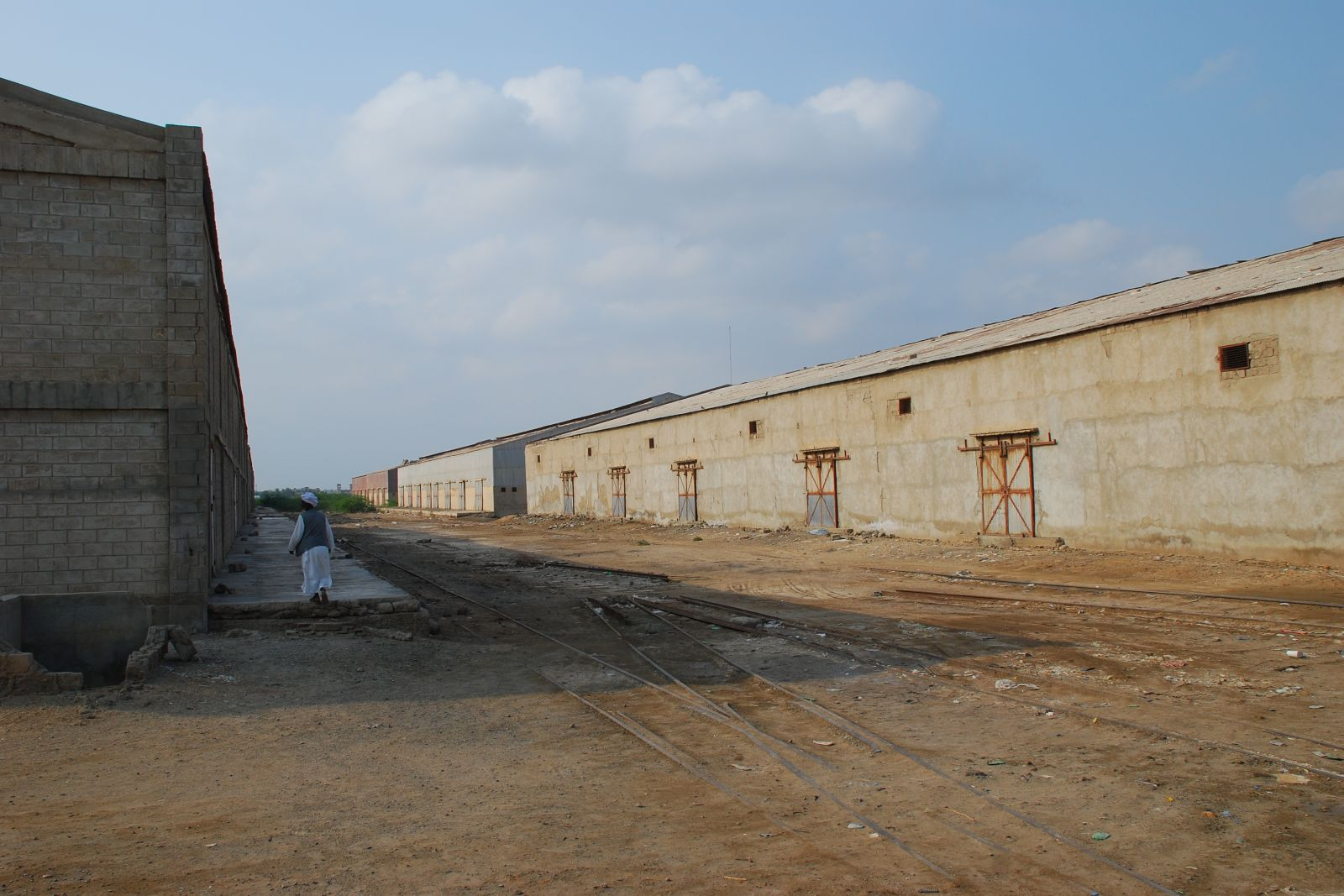 Warehouses north of city center near harbour